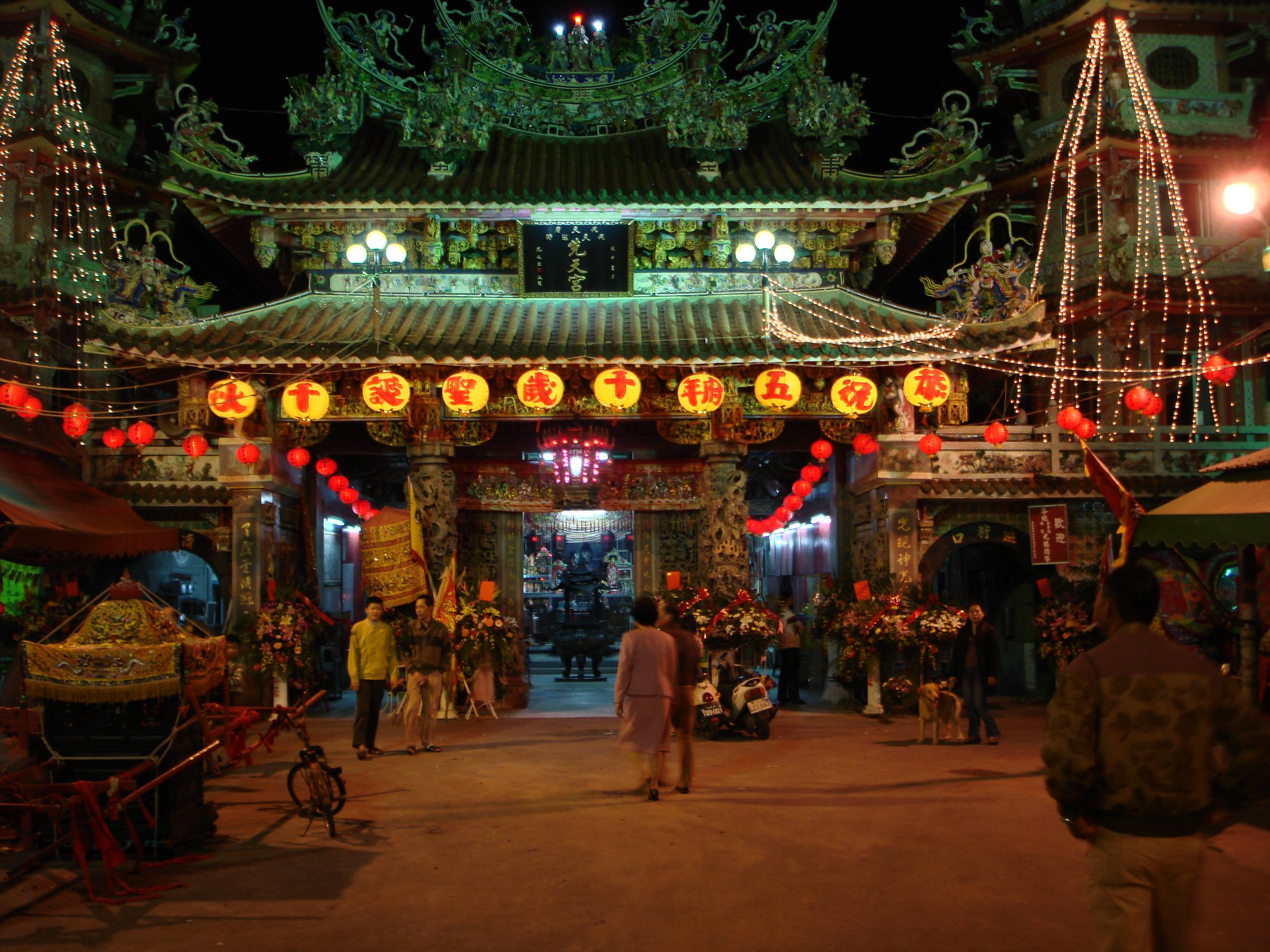 Night view of Xiantian Temple 中文（台灣）: 臺灣嘉義縣東石鄉先天宮舊貌夜景